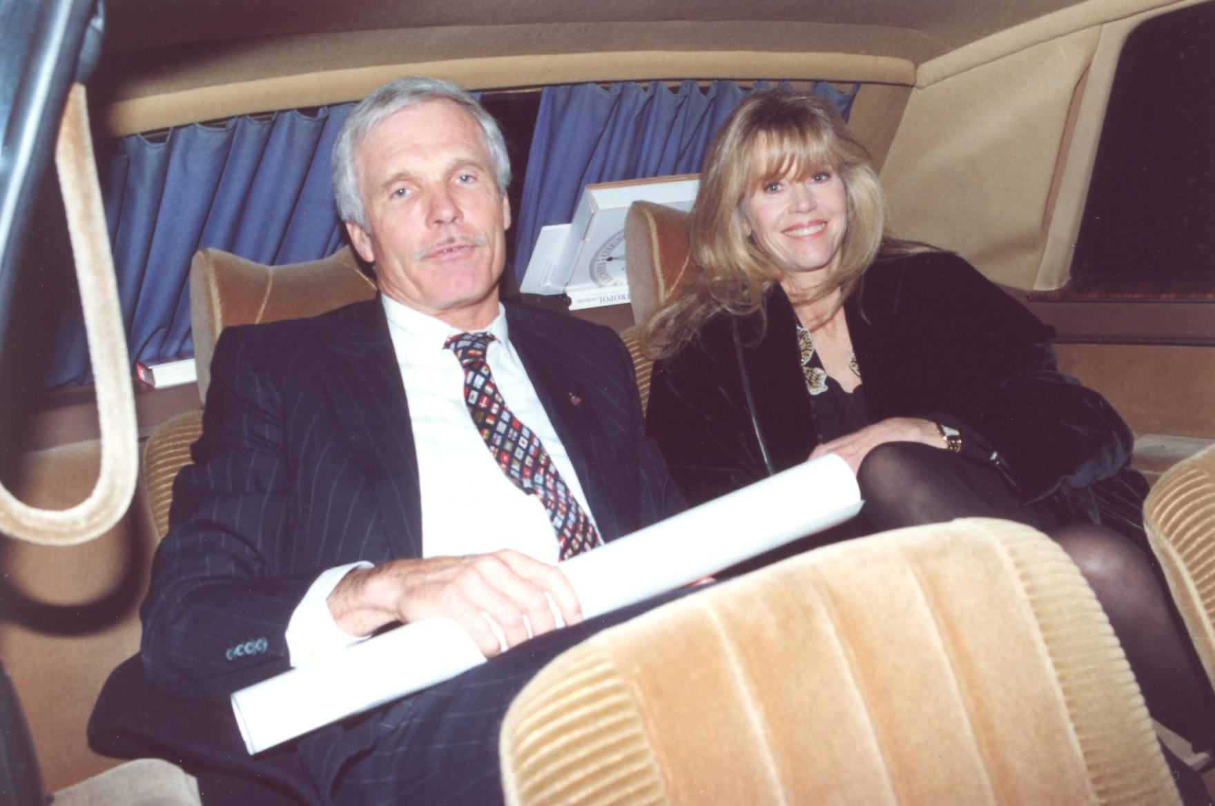 Jane Fonda and her husband Ted Turner at the International Leonardo Prize, Moscow, 1993